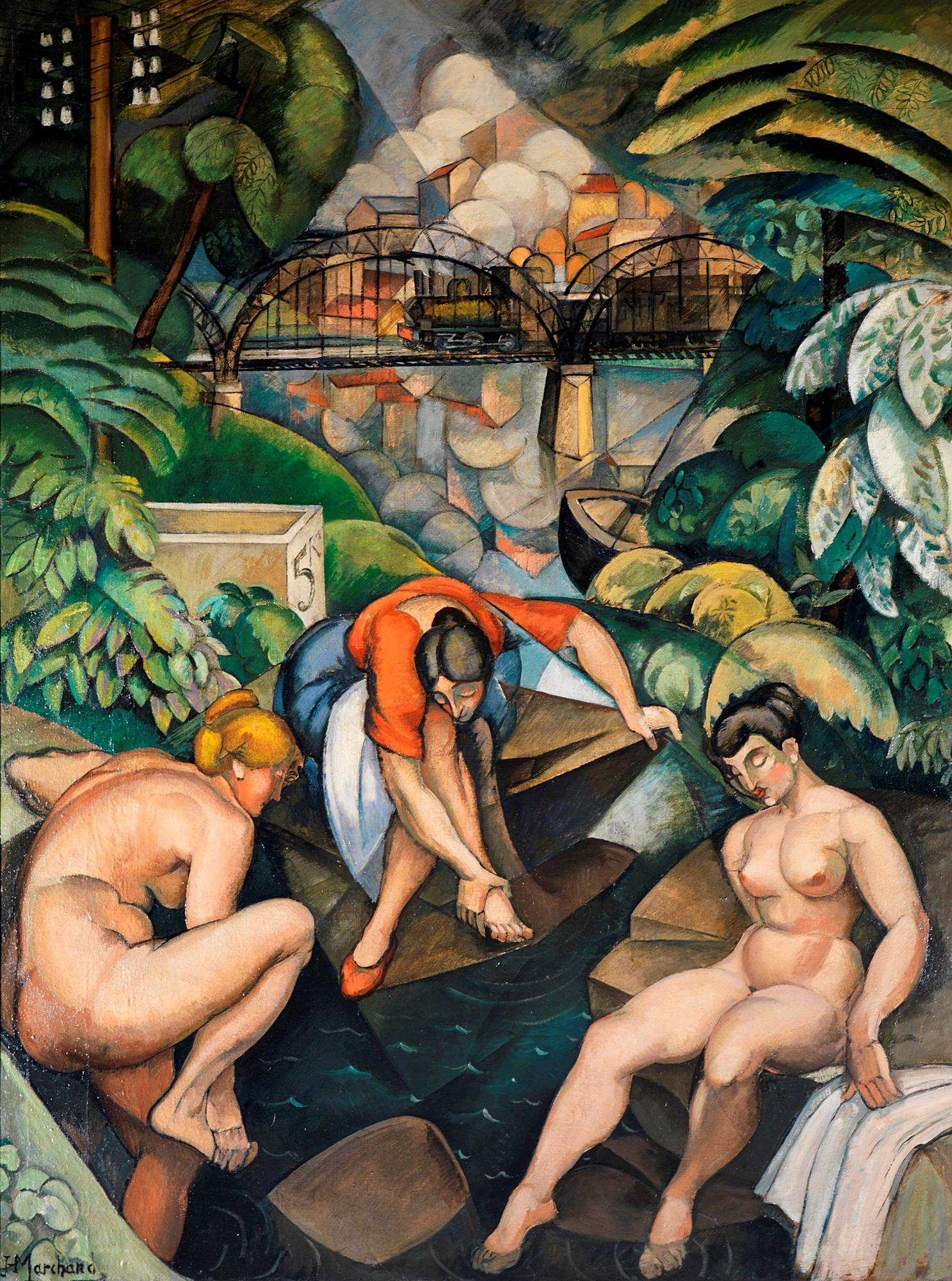 "La Source" signé 'J Marchand' lower left oil on canvas 162 x 130 cm. (2 39' 3/4 x 1 39' 1/4